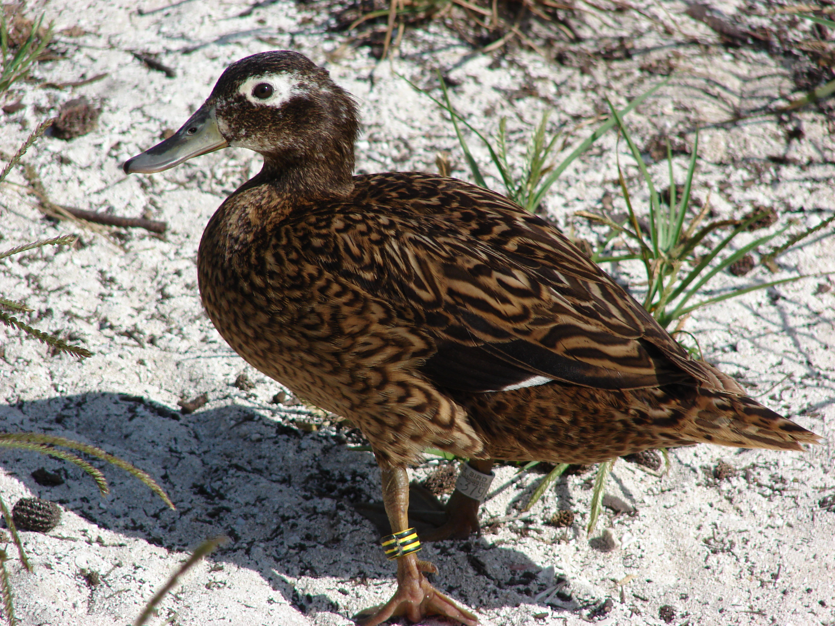 Eleusine indica (habit with Laysan duck). Location: Midway Atoll, Flag field Sand Island